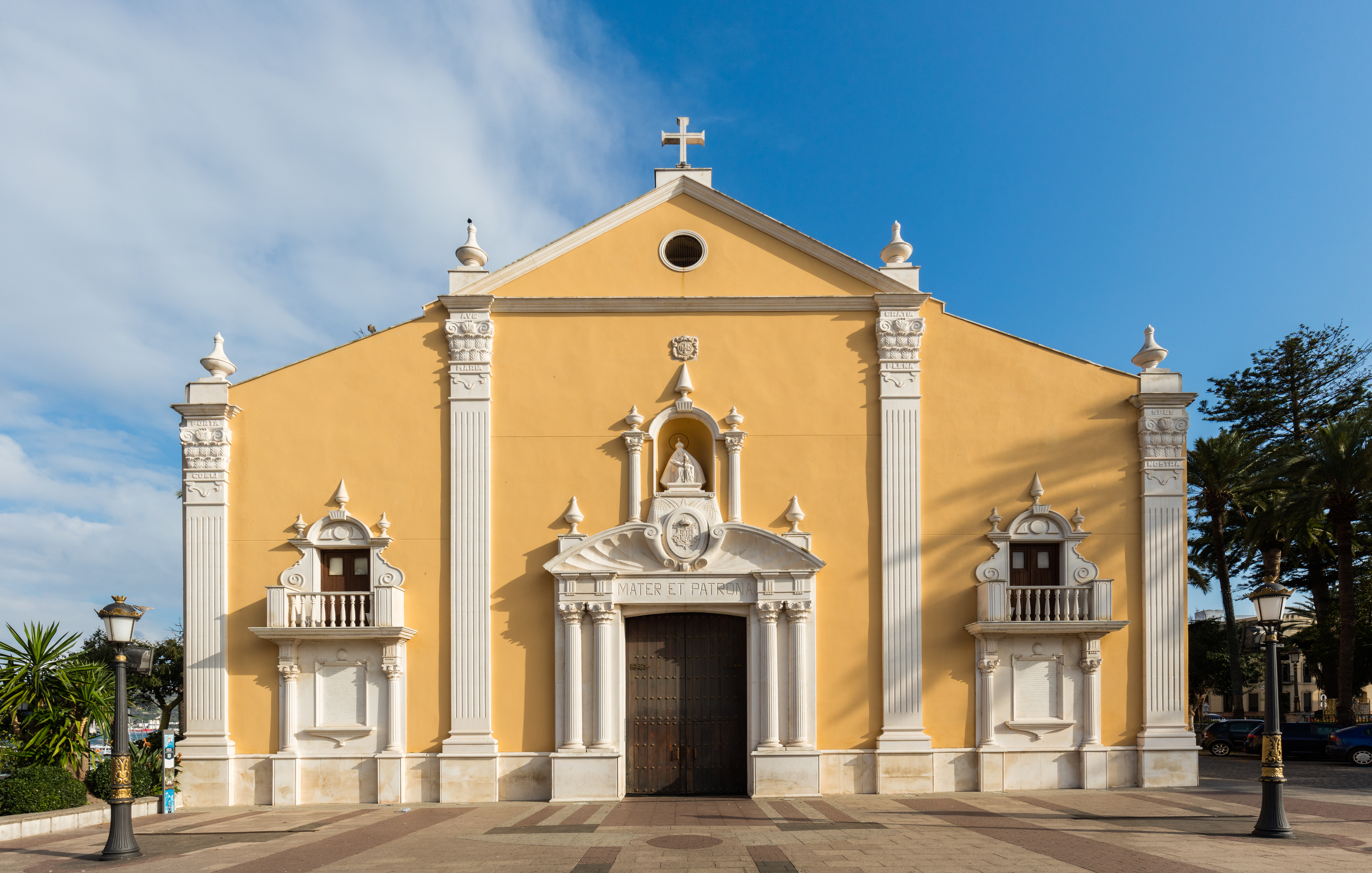 Church of Our Lady of Africa, Ceuta, Spain